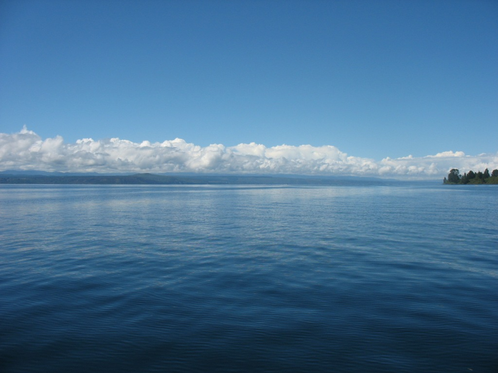 Photo taken on a boat on Lake Taupo.